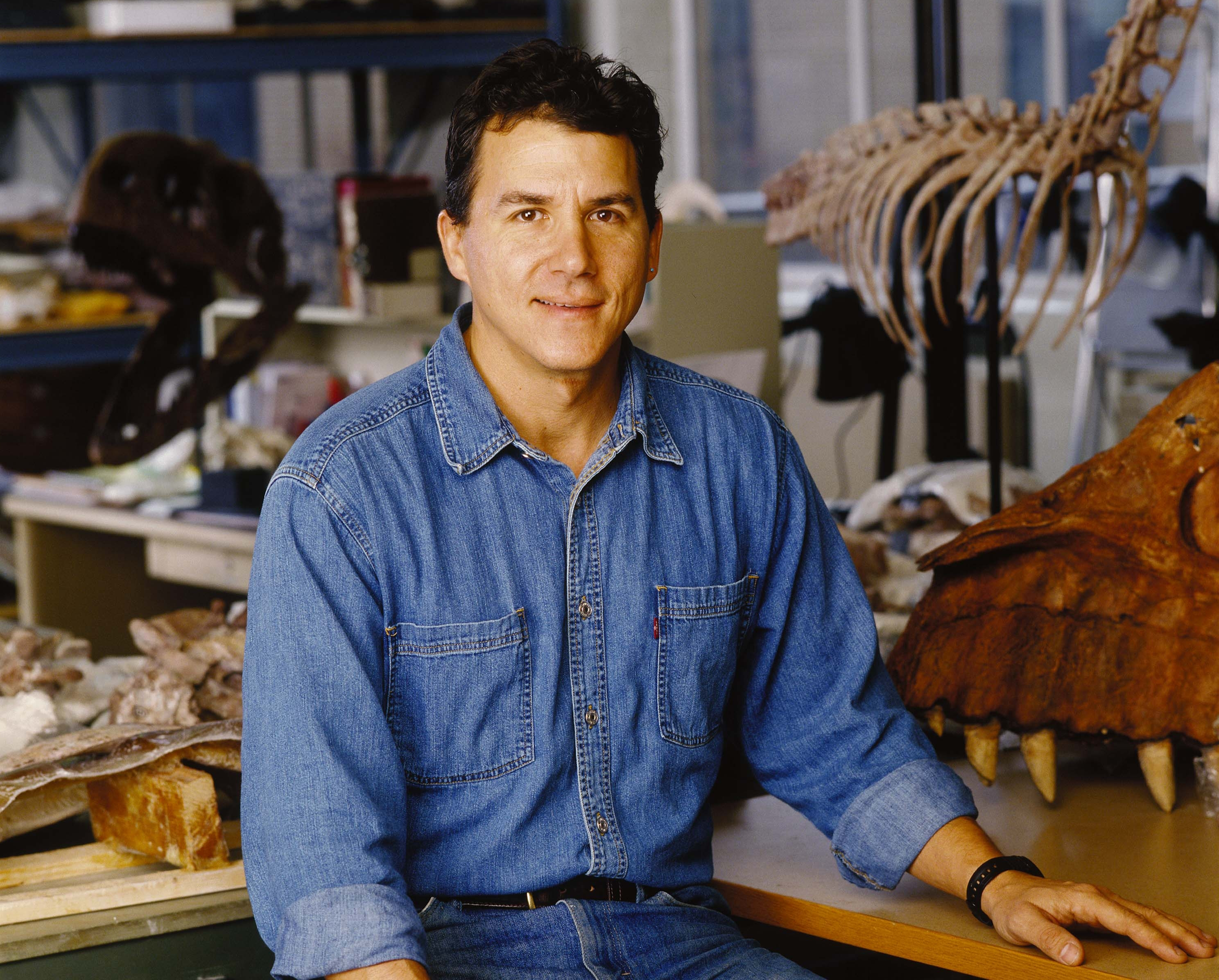 Paleontologist Paul Sereno is the first speaker in OSU's 2010-11 Horning Lecture Series. Sept. 2010. Photo by Mike Hettwer, courtesy of Project Exploration.